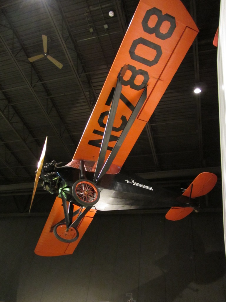 MONOCOUPE-VELIE 113